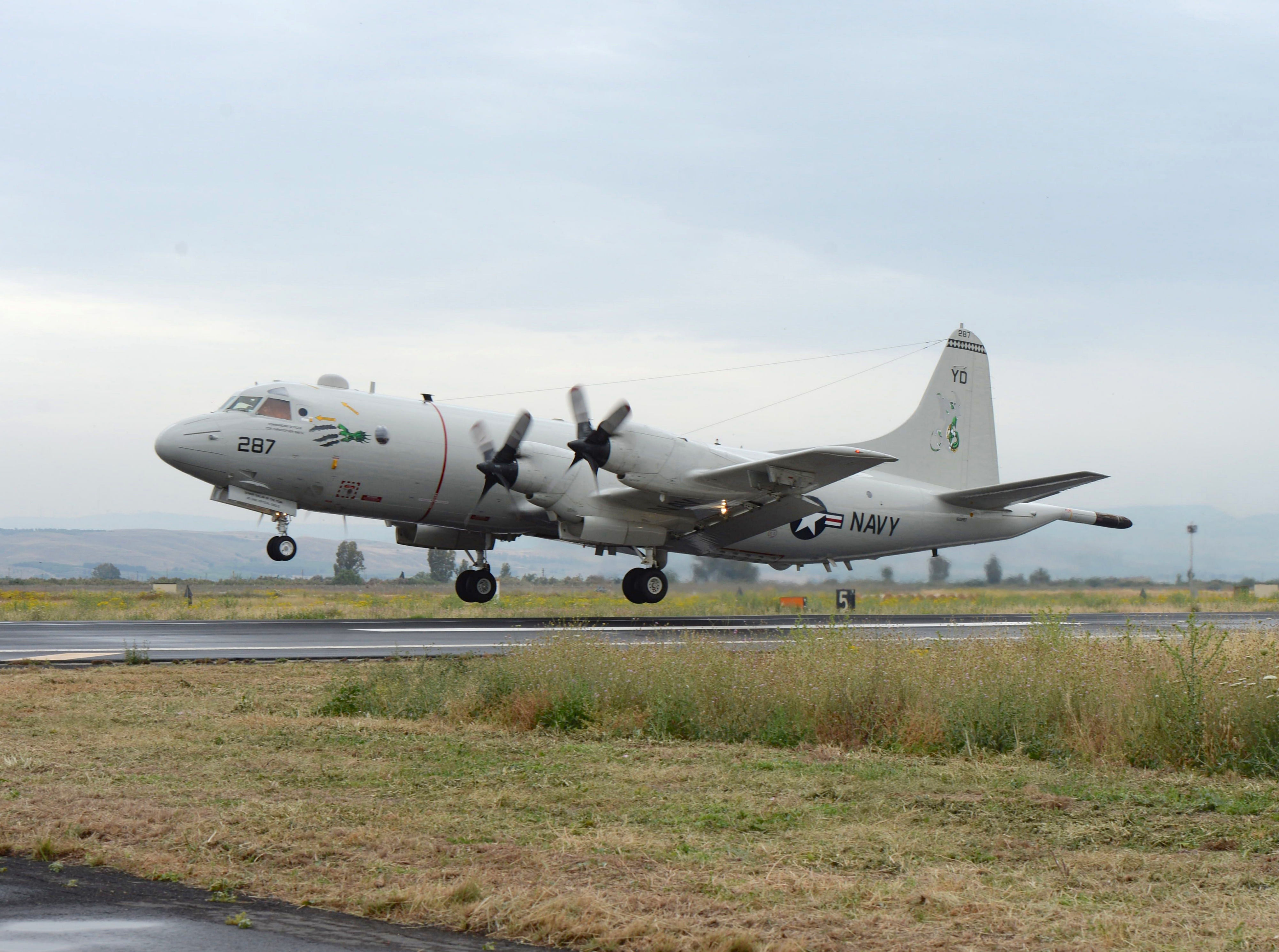 A U.S. Navy Lockheed P-3C Orion (BuNo 160287) from Patrol Squadron 4 (VP-4) takes off from Naval Air Station Sigonella, Sicily (Italy), to support the search for EgyptAir flight MS804. The U.S. Navy was providing a P-3 Orion in support of the Hellenic Armed Forces, the Joint Rescue Coordination Center in Greece, in response to a request by the U.S. Embassy in Athens, Greece for assistance in the search for the missing Egyptian aircraft.